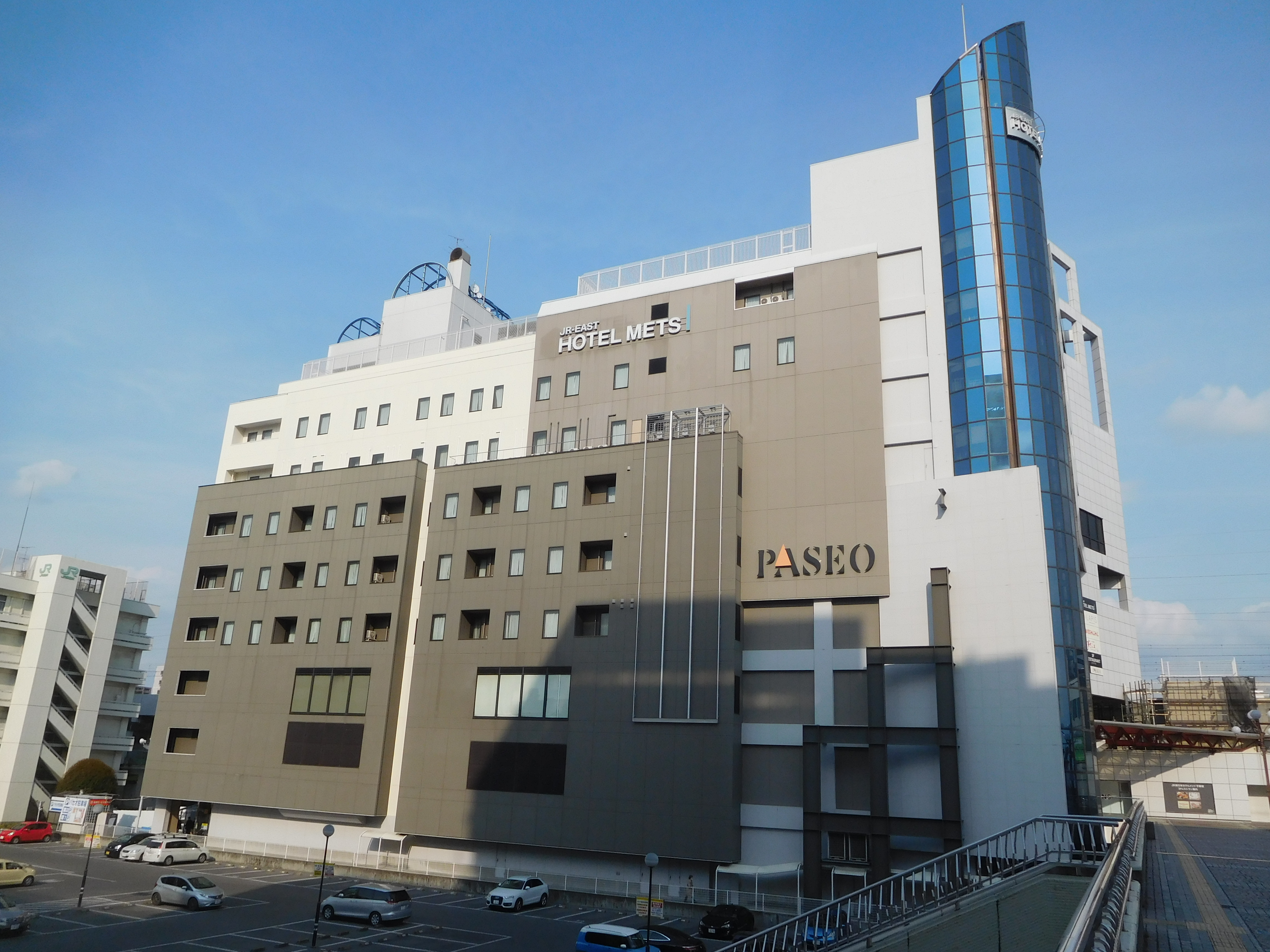 This is Utsunomiya station building "PASEO" in Utsunomiya, Tochigi, Japan. It has a hotel "JR-East Hotel Mets Utsunomiya".